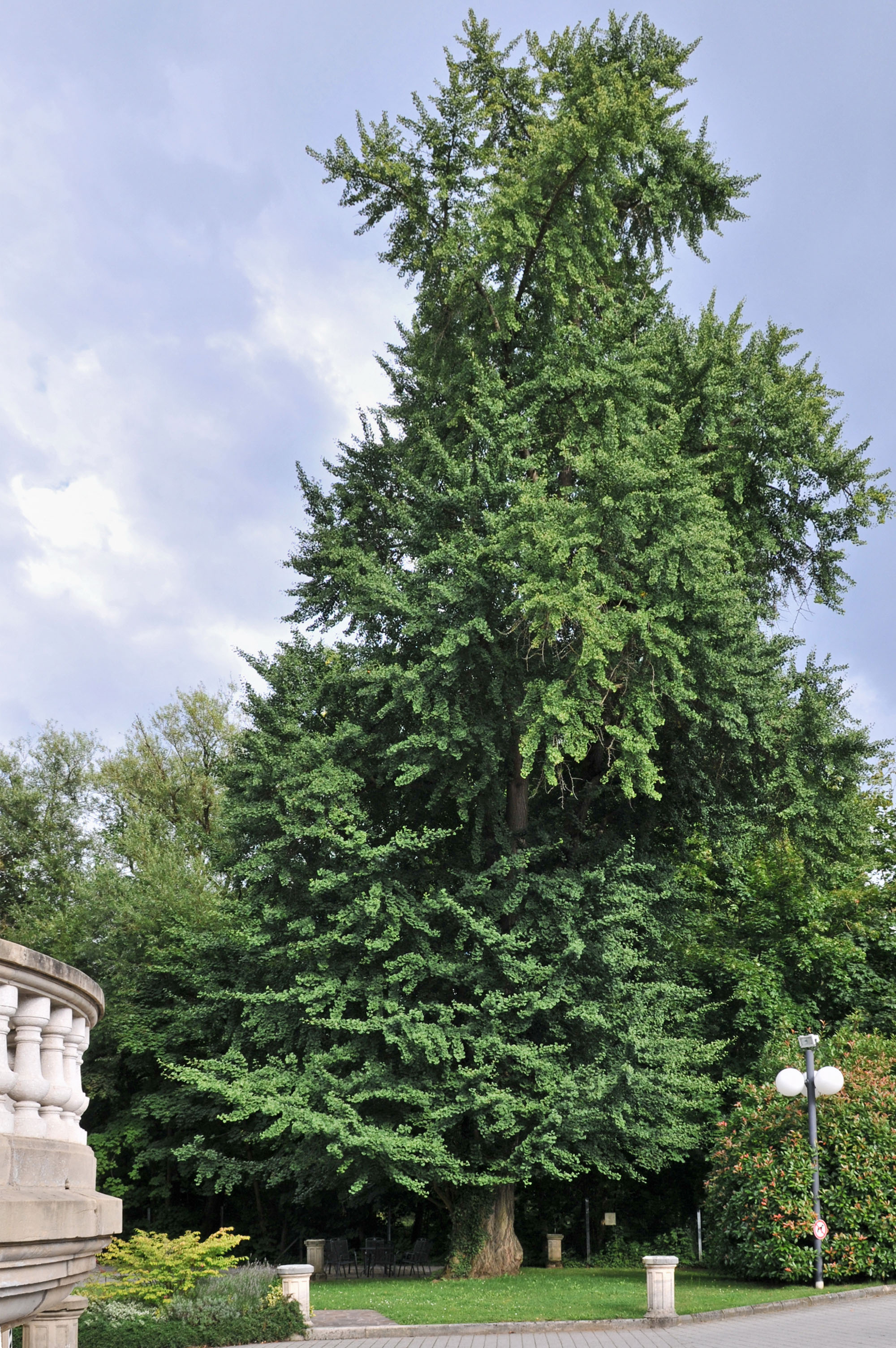 Luxembourg City: remarkable Gingko at place Dargent.